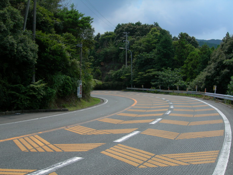 Mie prefectural route No.32, between Ise city and Shima city in Japan.